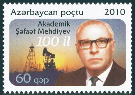 Azerbaijani stamp commemorating the 100th anniversary of birth of Dr. Shefaet Mehdiyev.